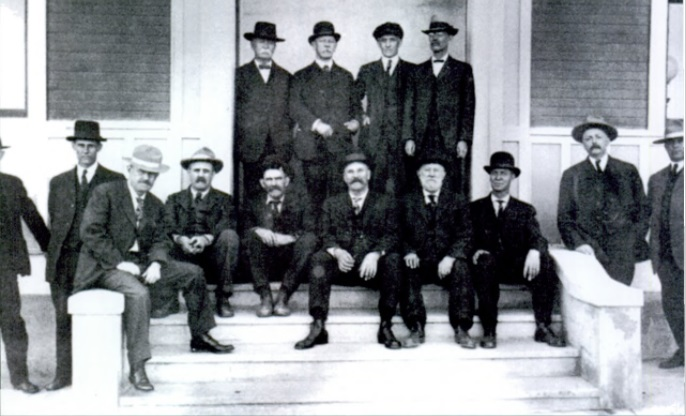 A photograph taken in 1912 comprised of those residents of Buffalo, Wyoming deemed to be the Founders of that town